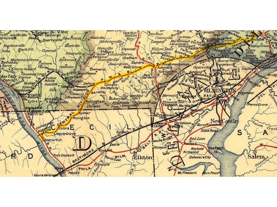 Map of Philadelphia and Baltimore Central Railroad, later called the Octoraro Branch of the Pennsylvania Railroad. Original map cropped and P&BC rail line highlighted.